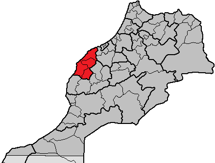 Location of the region Doukkala-Abda, Morocco. In total, Moroco has 16 regions, subdivided into 62 provinces and 13 prefectures.